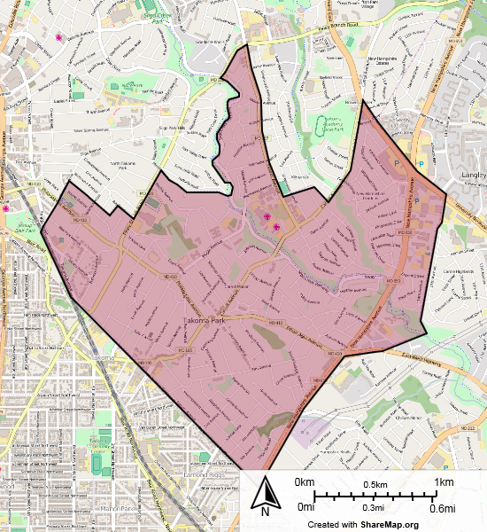 This map shows the incorporated area of Takoma Park in red.